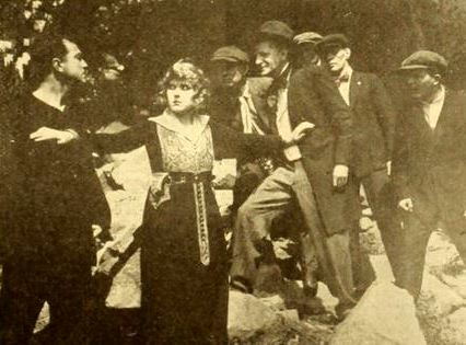 Still from the American film serial The Lightning Raider (1919) with Pearl White and unidentified actors, on page 325 of the January 18, 1919 Moving Picture World.